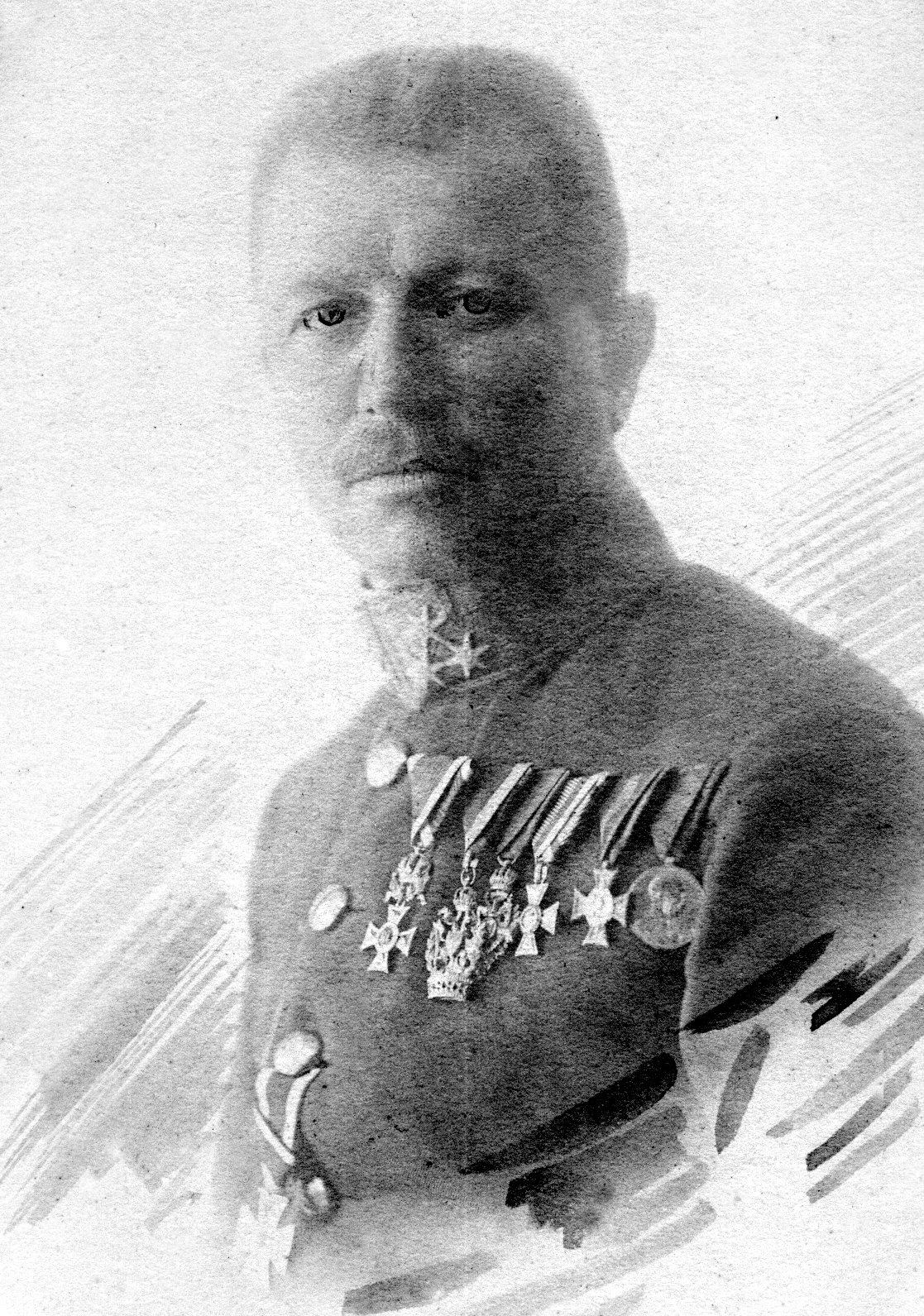 General Franciszek Ksawery Latinik with decorations, portret photography.